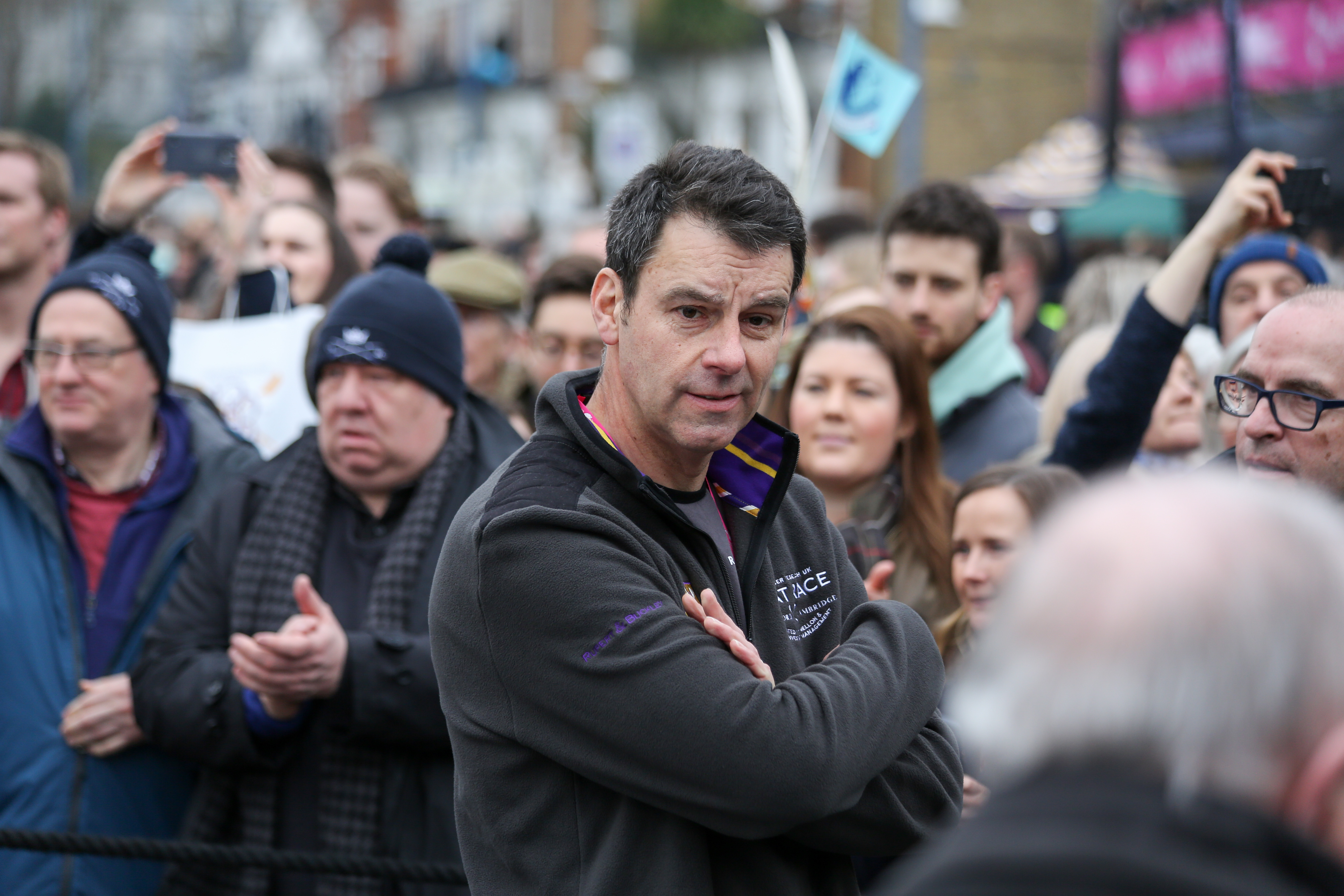 The Cancer Research UK Boat Race 2018 - Men's Blues Race - Umpire - John Garrett